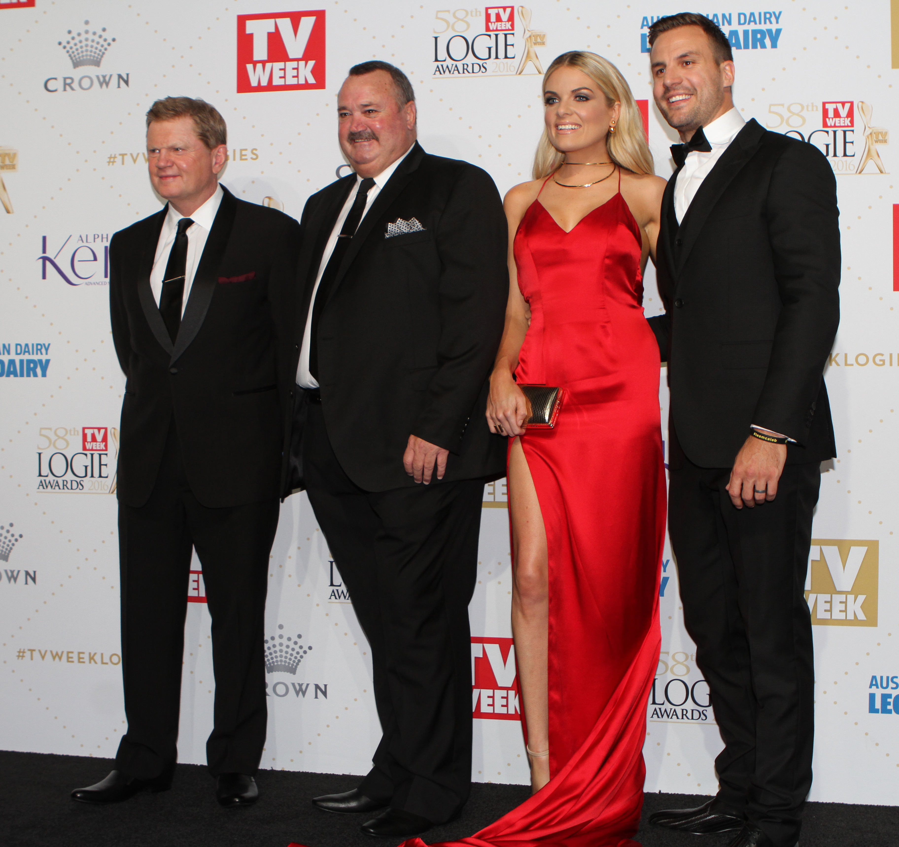 The Footy Show Cast 2016 TV Week Logie Awards